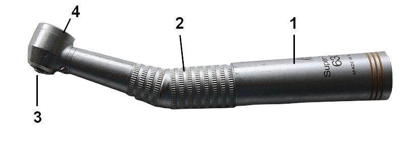 Other (tagged and edited) version of: File:Turbine Zahnarzt 20090422 012.JPG